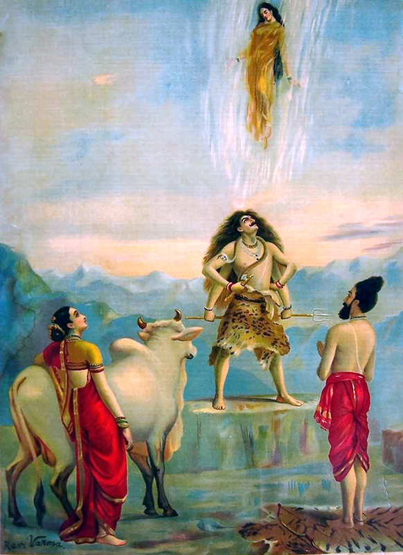 Shiva breaking up Ganga's arrogant descent from heaven using his hair. Parvati, Nandi and Bhagiratha watching. A Ravi Rarma press Oleograph.